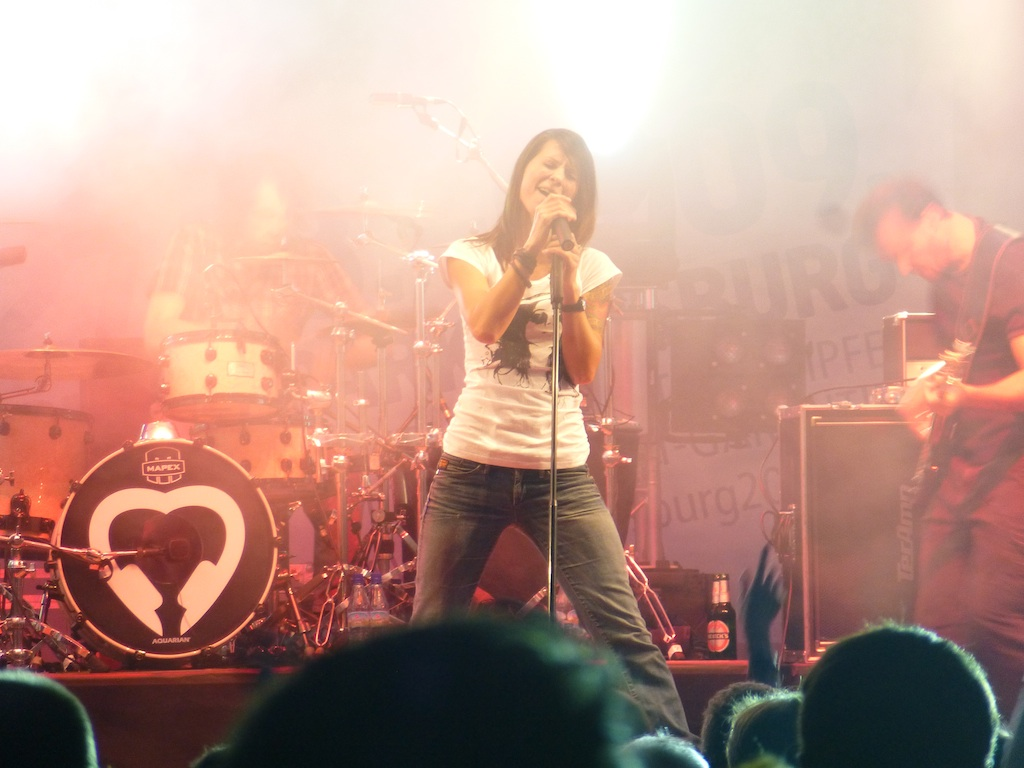 At a concert during thr ICF Canoe Sprint World Championships in Duisburg (Germany)